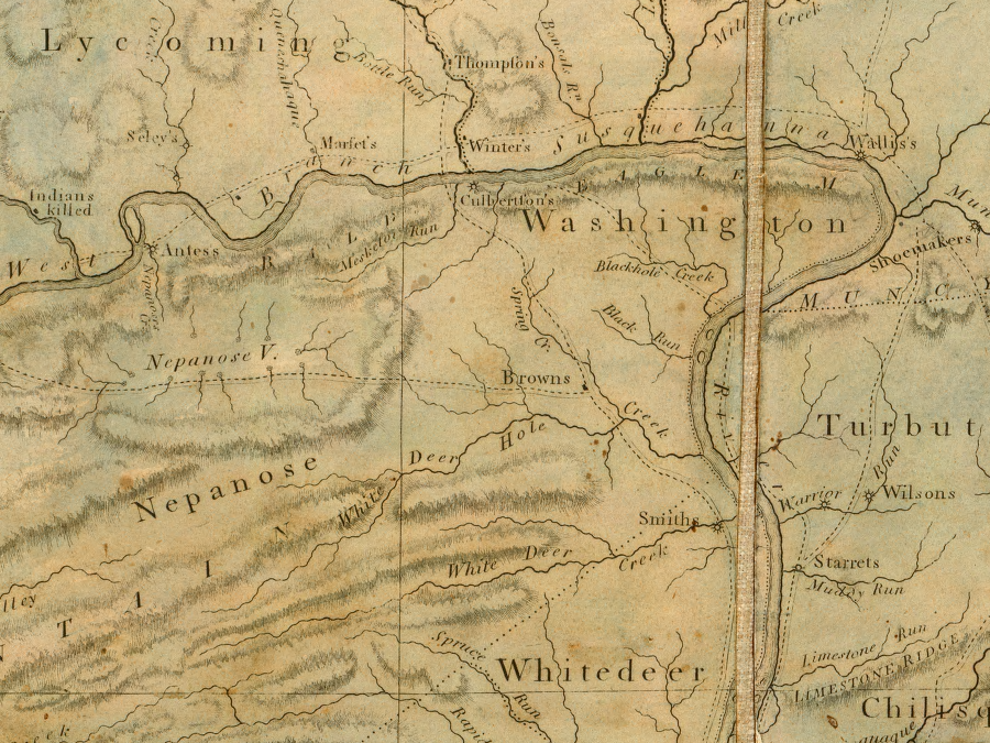 A map of the state of Pennsylvania, cropped and centered around White Deer Hole Creek. Originally 94 cm by 162 cm, with a scale of 1:310000. For more information and the complete file in .sid, see the online source